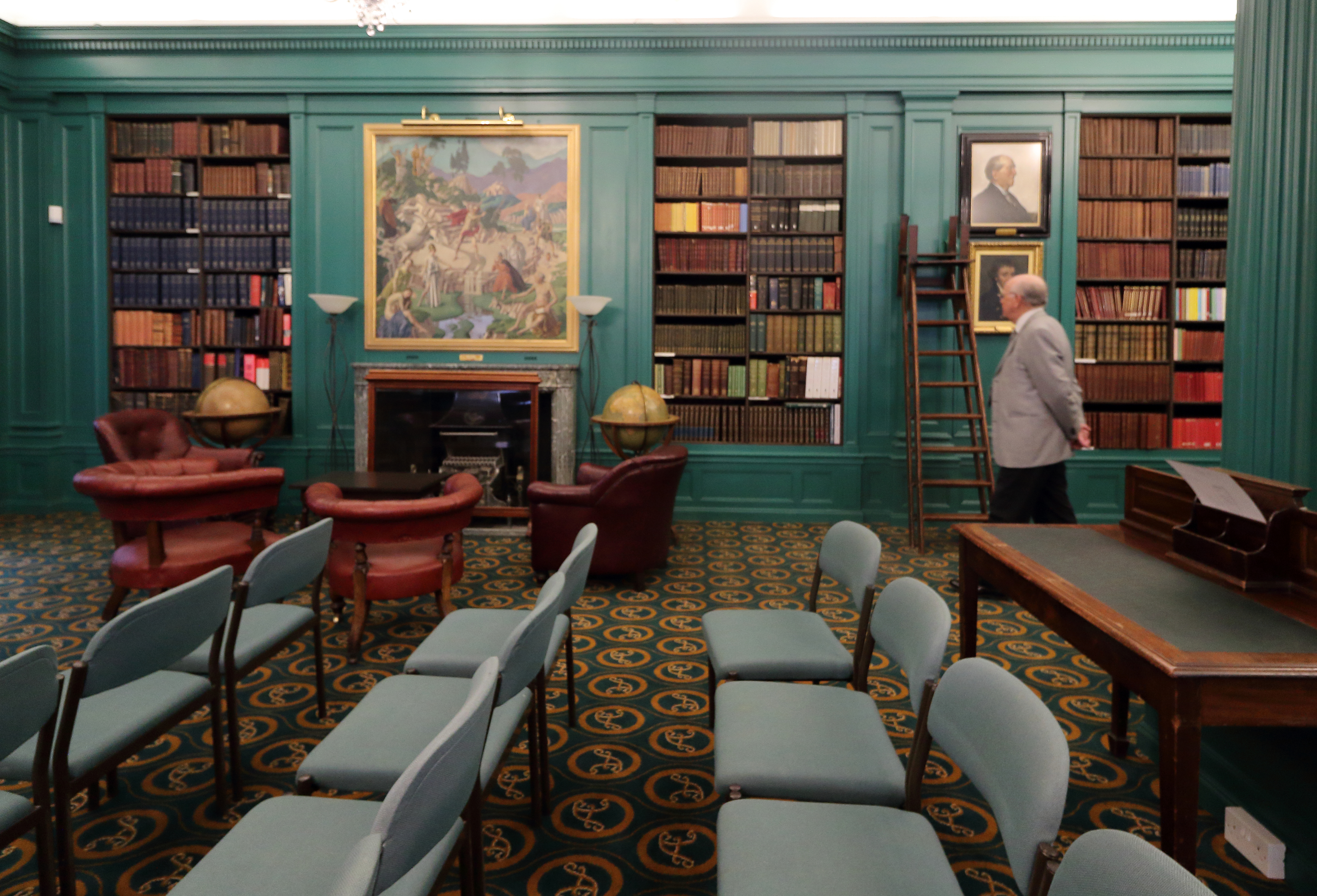 The right-hand wall, with mural by Edward Halliday, one of three depicting scenes from Greek legend.